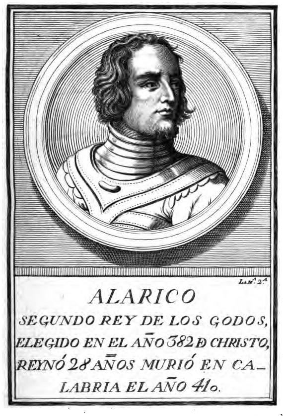 A poster of ALARICO, Visigoth king, n° 2 in the chronological order of the book digitalized by Google since the bookshop in the University of Oxford.